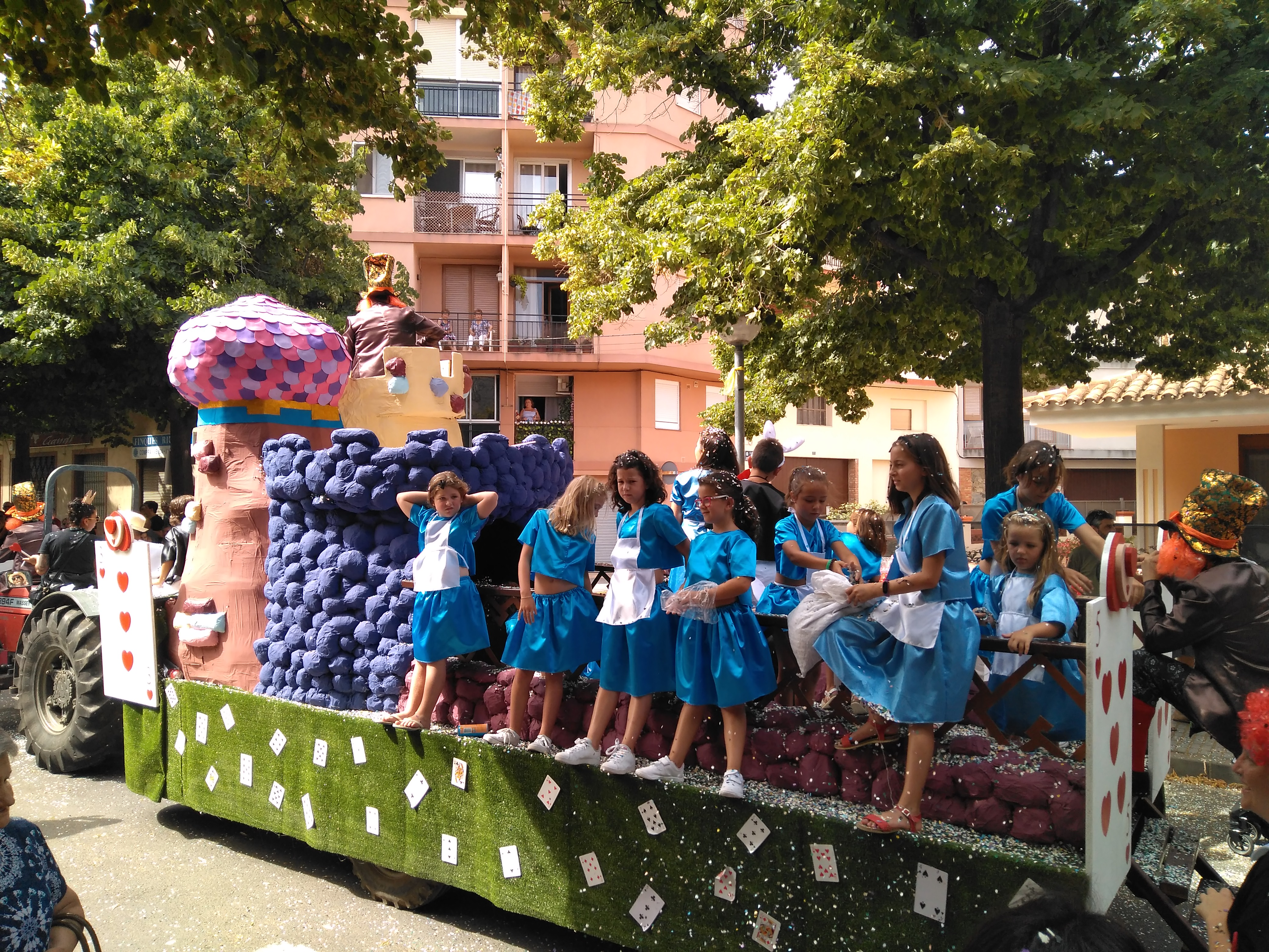 Festival of the Neighbourhoods, that it takes place in Riudoms the first weekend of July. Image from 2019.